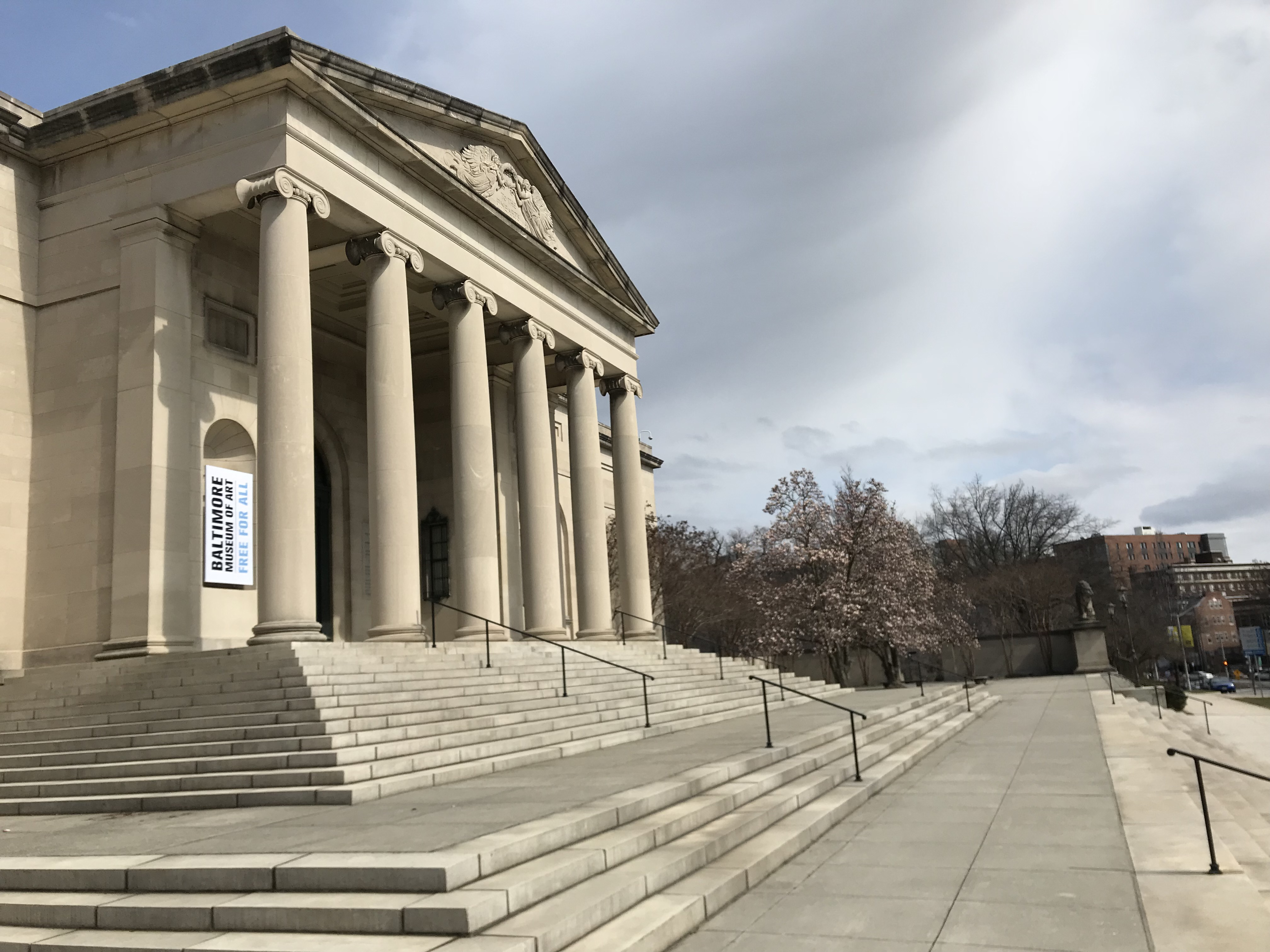 Photograph by Eli Pousson, 2018 March 25.